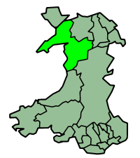 English map of Gwynedd (one of the subdivisions of Wales)